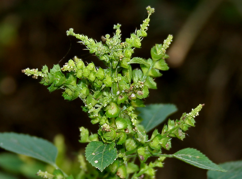 Acalypha indica L. (syn. A. bailloniana Müll.Arg.; A. canescens Wall.; A. caroliniana Blanco; A. chinensis Benth.; A. ciliata Wall.; A. cupamenii Dragend.; A. decidua Forssk.; A. fimbriata Baill.; A. indica var. bailloniana (Müll.Arg.) Hutch.; A. indica var. minima (H.Keng) S.F.Huang & T.C.Huang; A. minima H.Keng; A. somalensis Pax; A. somalium Müll.Arg.; A. spicata Forssk.; Cupamenis indica (L.) Raf.; Ricinocarpus baillonianus (Müll.Arg.) Kuntze; R. deciduus (Forssk.) Kuntze; R. indicus (L.) Kuntze)- Rudra, Indian acalypha, Kuppu, Khokali- in Hyderabad, India.